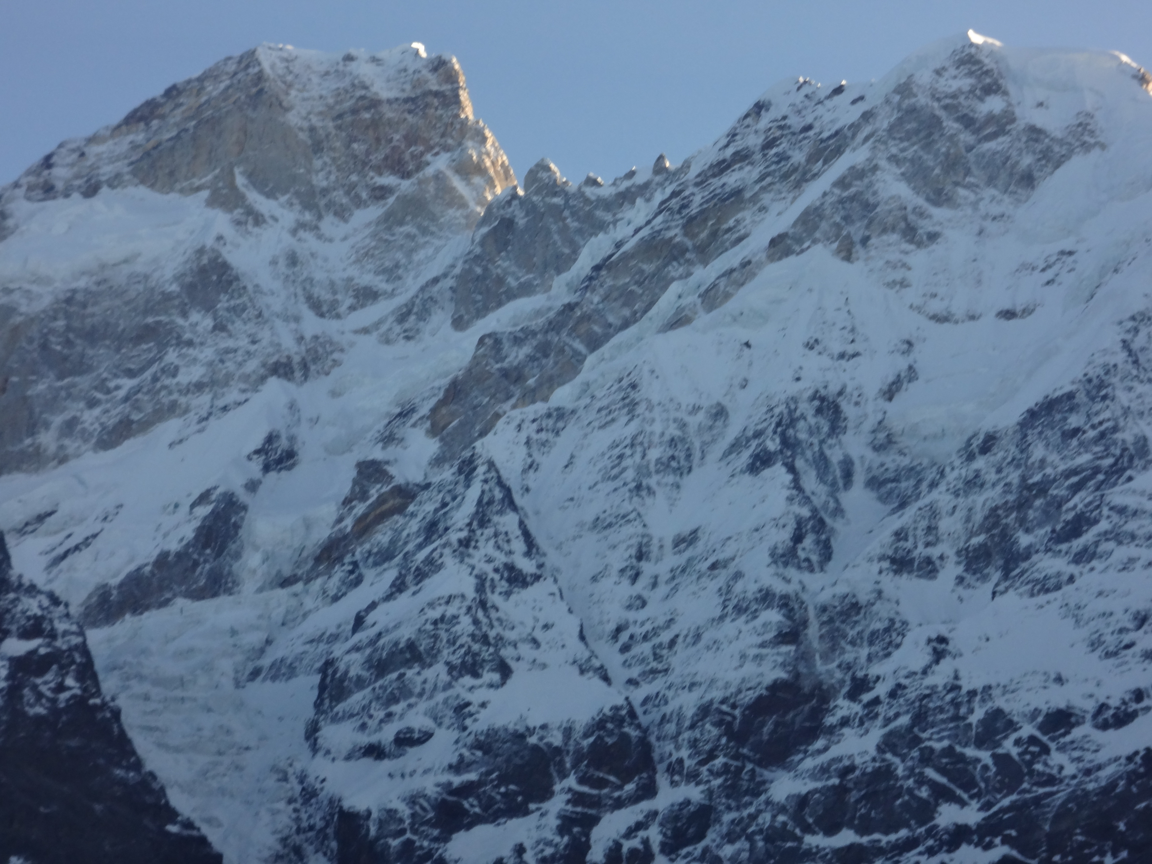 These are the starting snow ranges of the Nanda Devi.